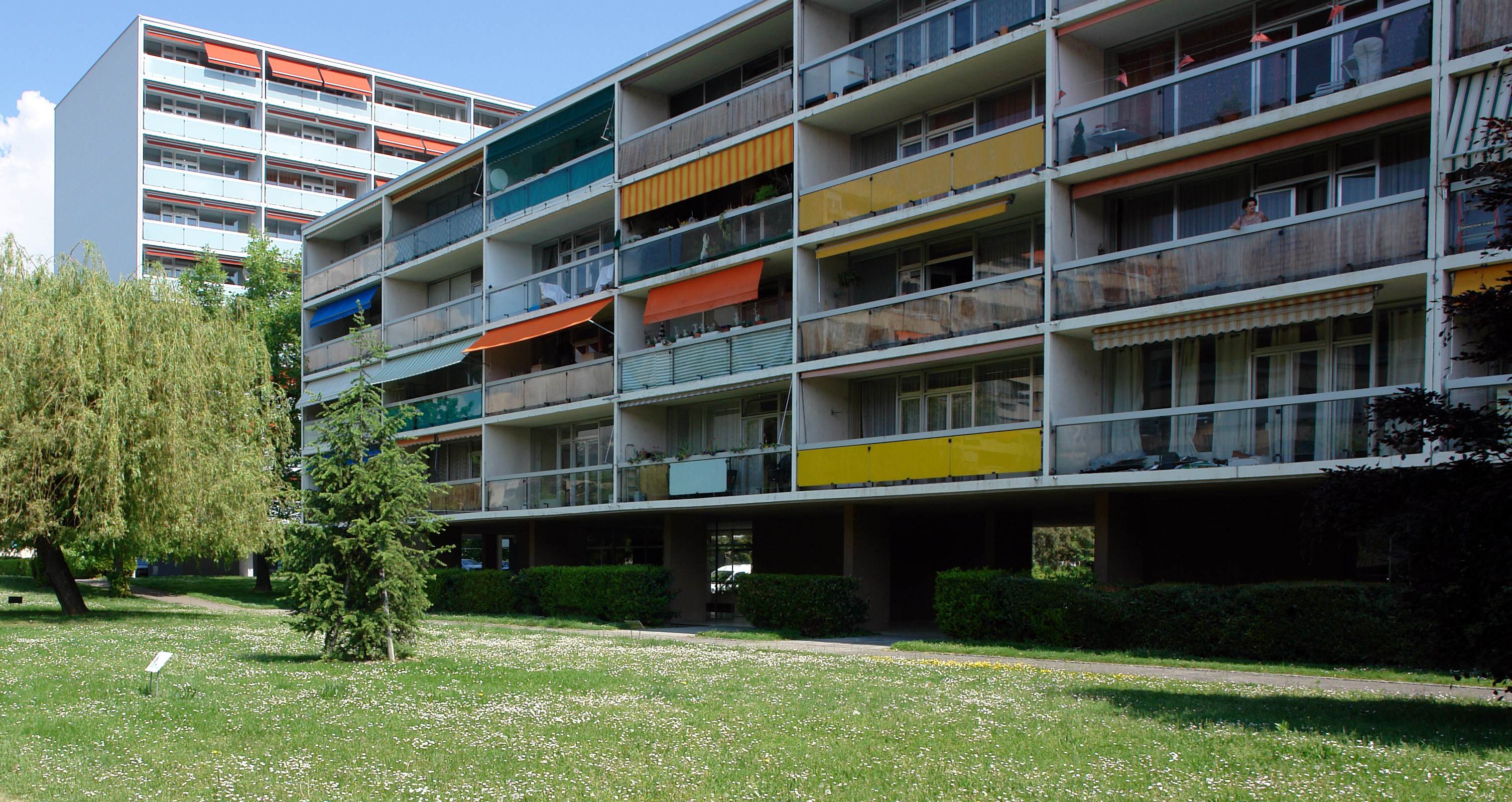 Cité Satellite de Meyrin, large housing estate, Meyrin, Geneva, 1960-63, Architect: Georges Addor